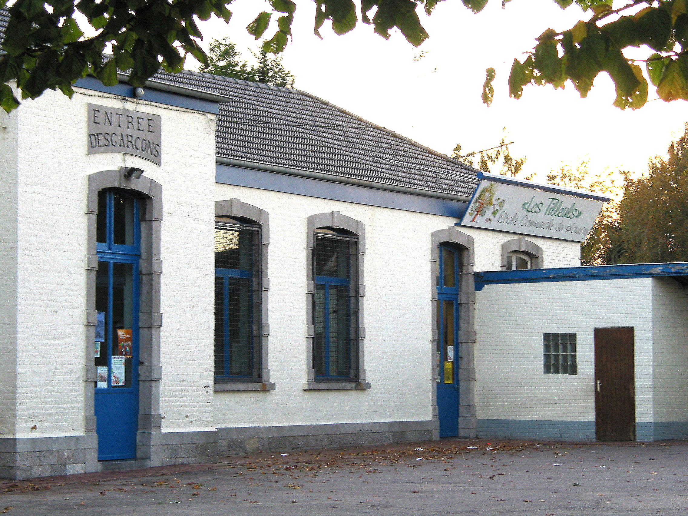 Sprimont (Belgium), the school "for boys" porch. Walon: Sprimont (Bèljike), li sicole dès gamins.